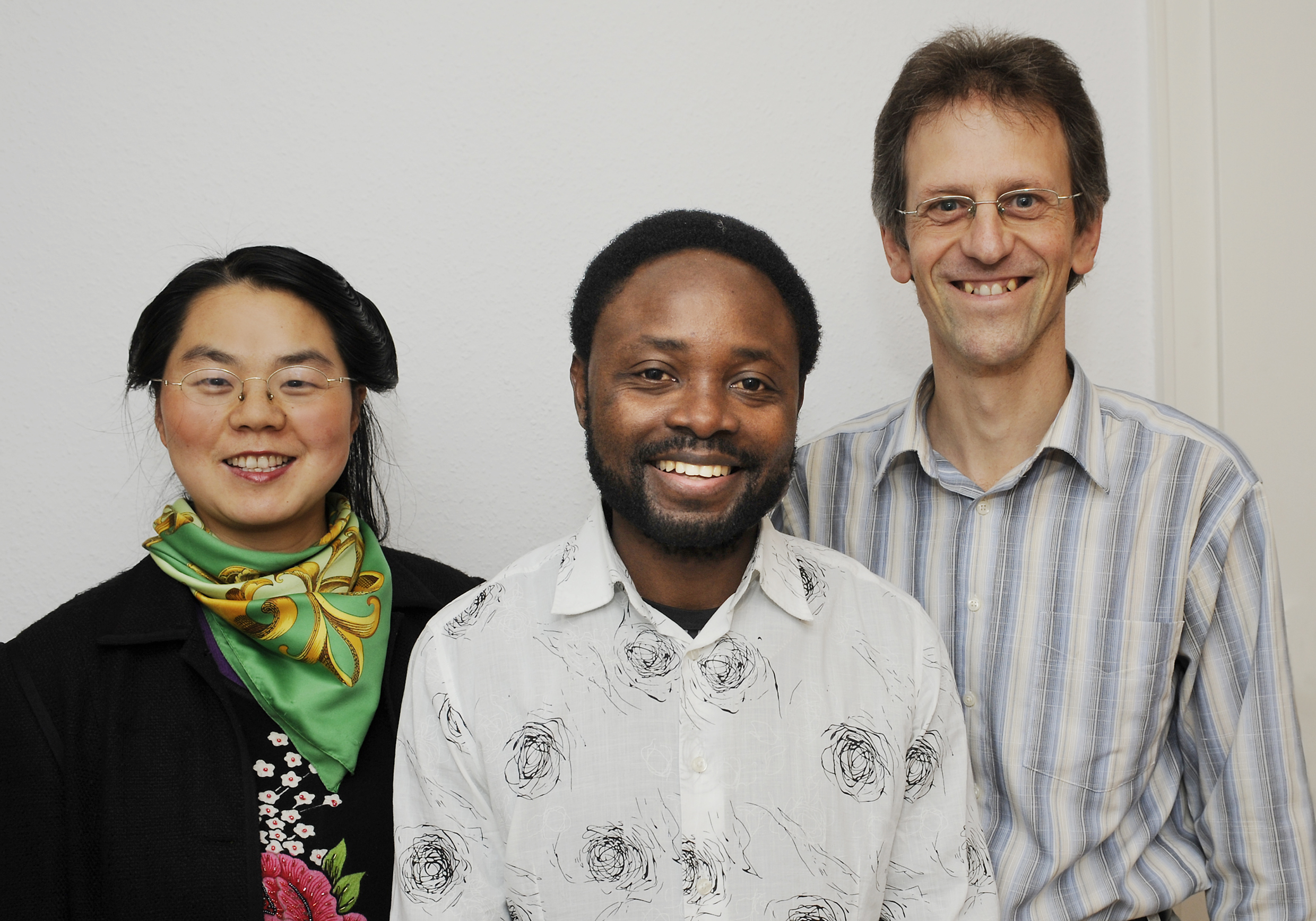 Three board members of UNU MONDO during the foundation: Nan Matthias-Wang, Molière Ngangu and Ulrich Matthias.